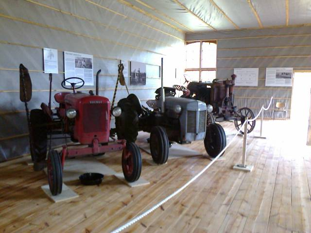 Tyrnävä museum of farming equipment